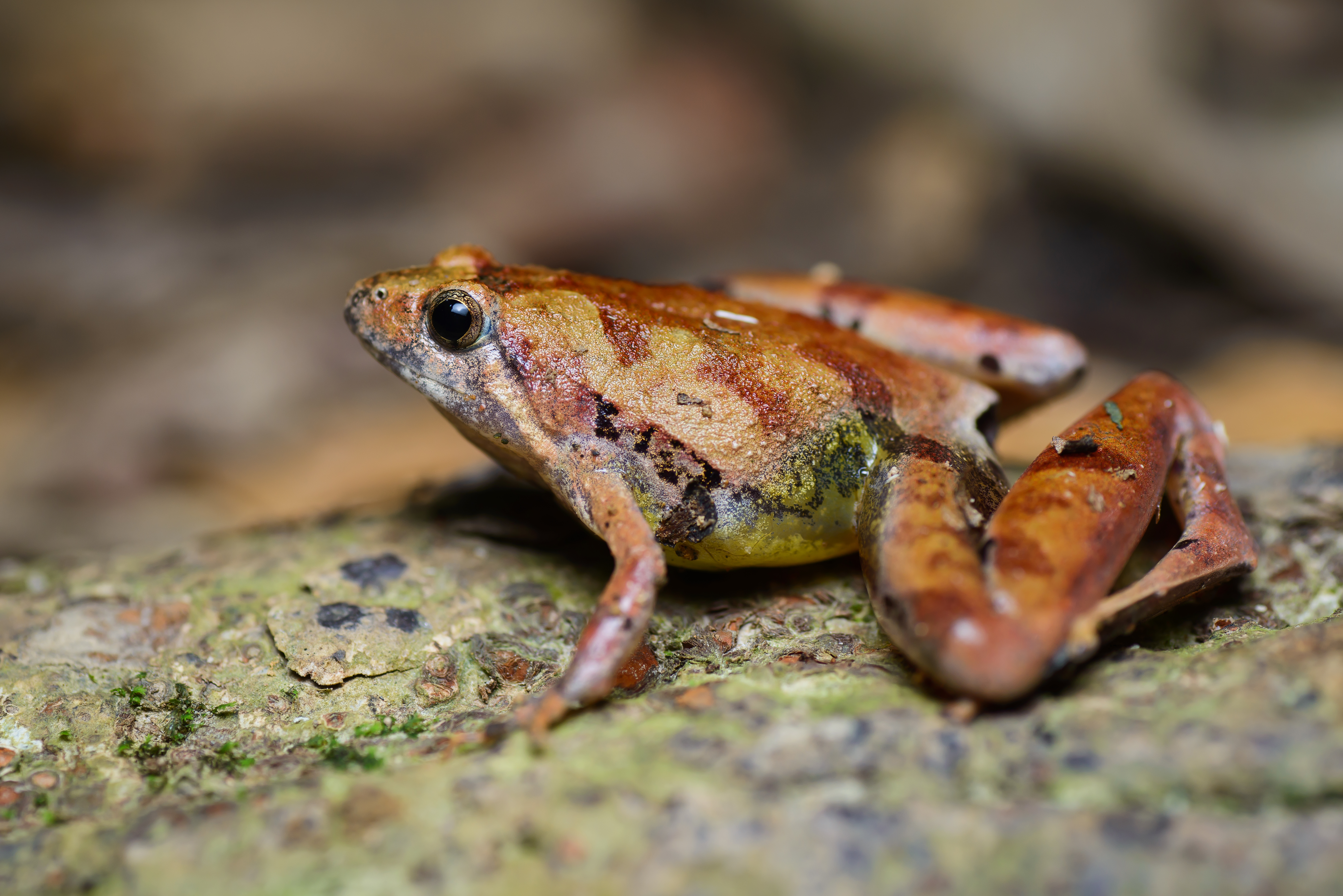 Microhyla berdmorei, Berdmore's chorus frog - Khao Luang National Park. Photo by Thai National Parks